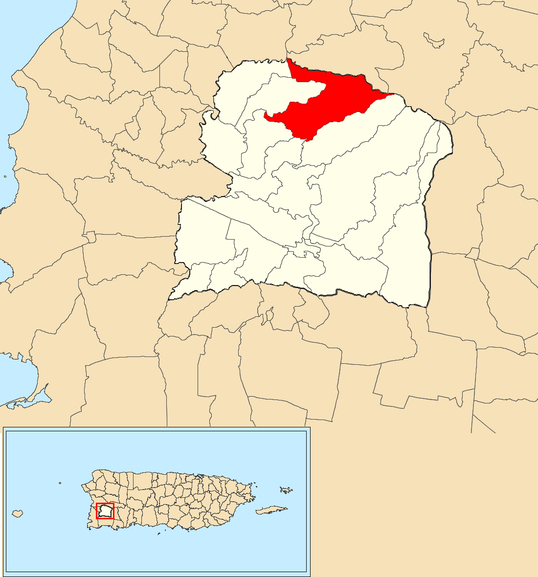 Rosario Alto, San Germán, Puerto Rico locator map